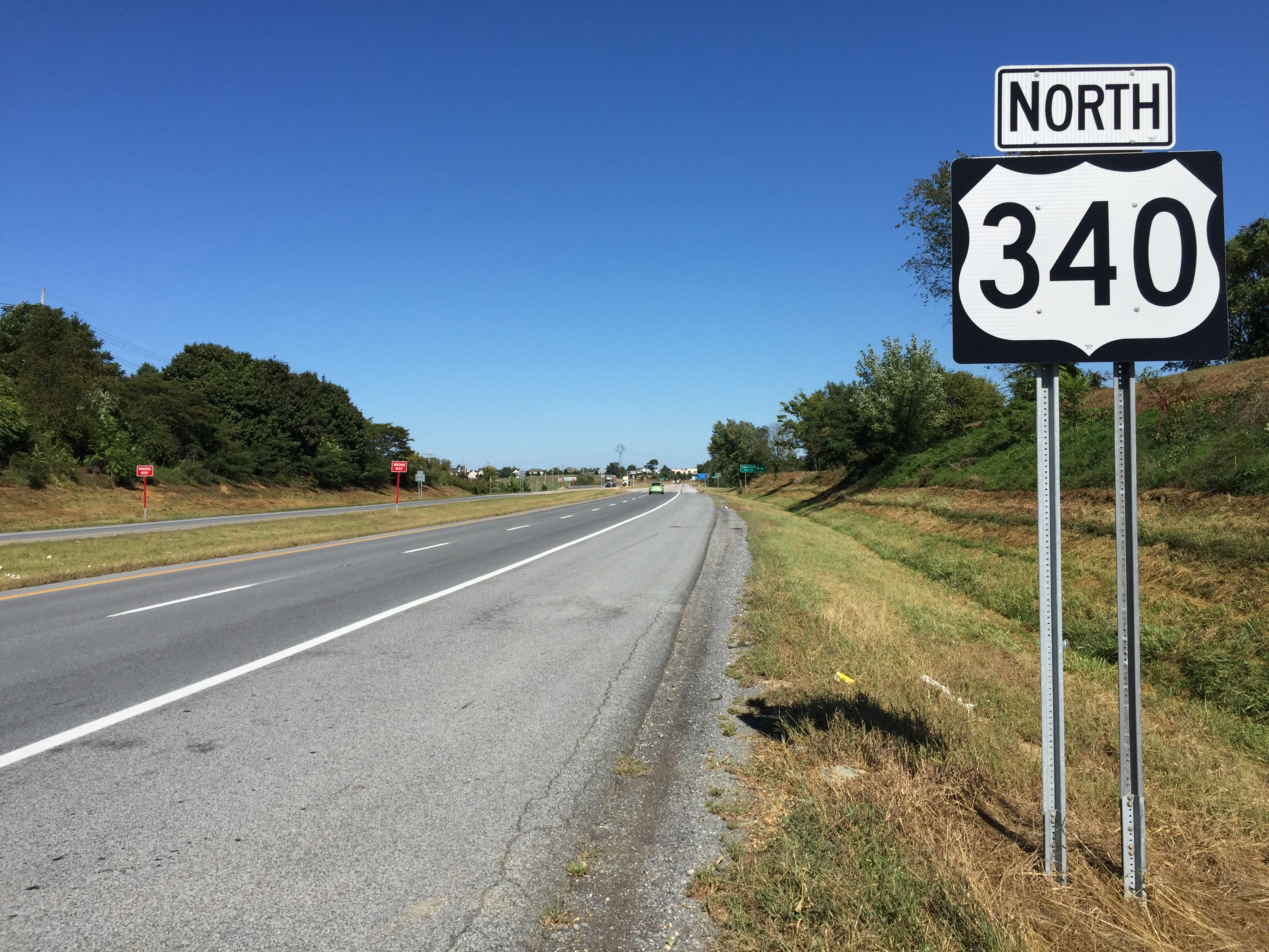 View north along U.S. Route 340 (Berryville Pike) just south of Roper North Fork Road (Jefferson County Route 340/3) in Wheatland, Jefferson County, West Virginia